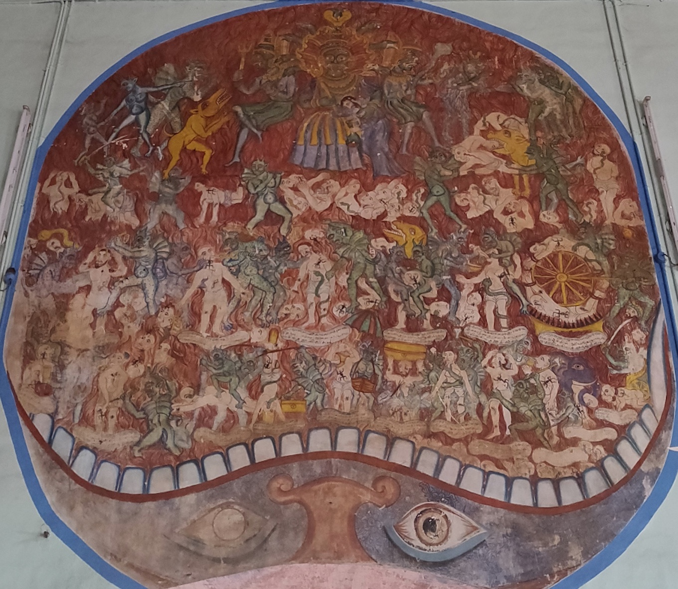 Hell scene mural above the southern entrance at St Mary’s Jacobite Syrian Church (Soonoro Cathedral) in Angamaly, Kerala, India. The murals in this church are a mix of West Asian and local traditions and have come down from the 17th century.